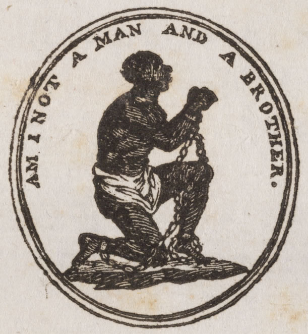 Am I not a man emblem used during the campaign to abolish slavery. The image is from a book from 1788, so there can be no effective copyright.